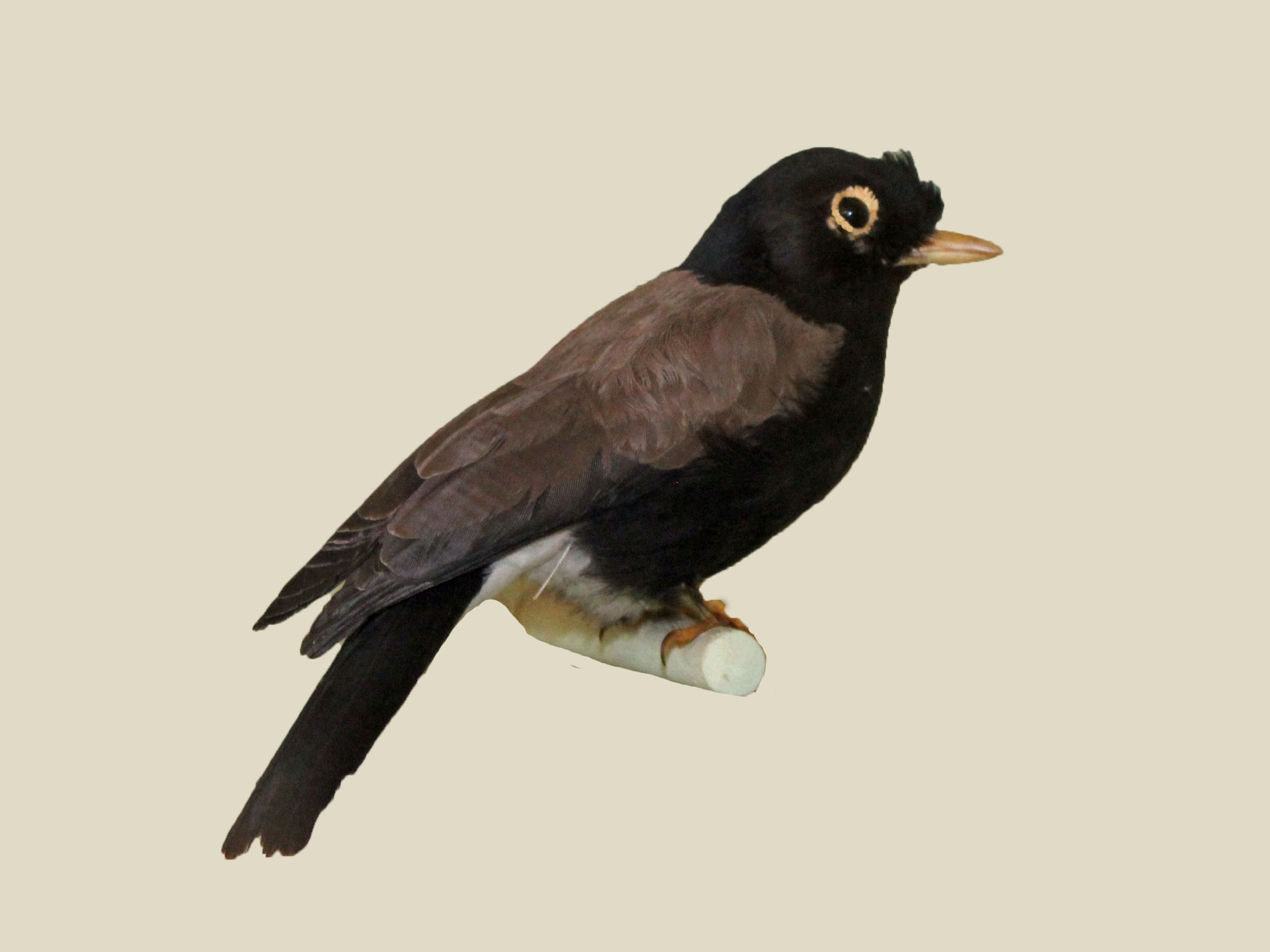 Retz's Helmetshrike (Prionops retzii). Photograph of a specimen at Nairobi National Museum in Nairobi, Kenya.